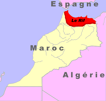 rif's map